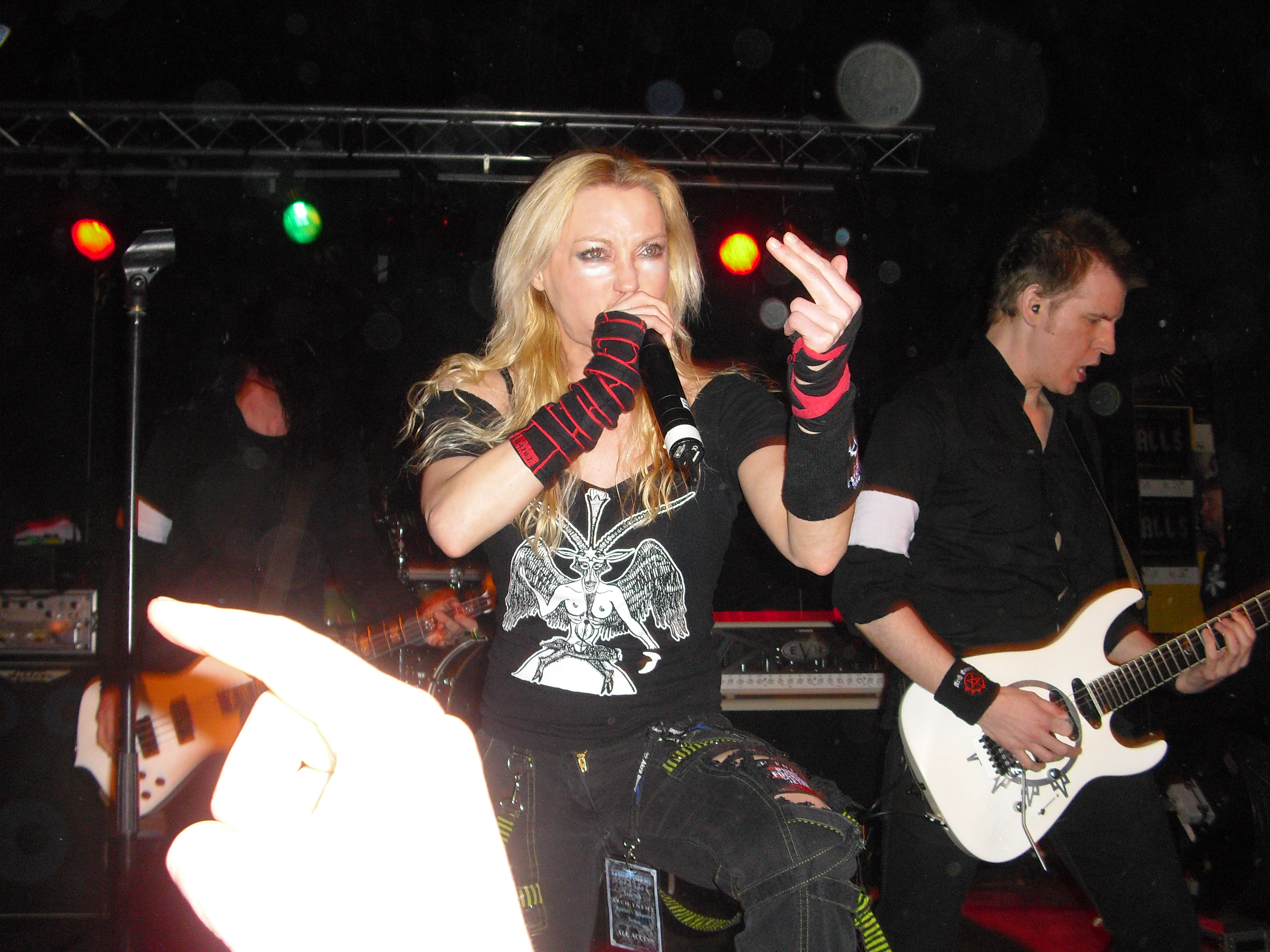 Angela Gossow performing with Arch Enemy at The Untouchables Hard Rock Club in Jevnaker, Norway